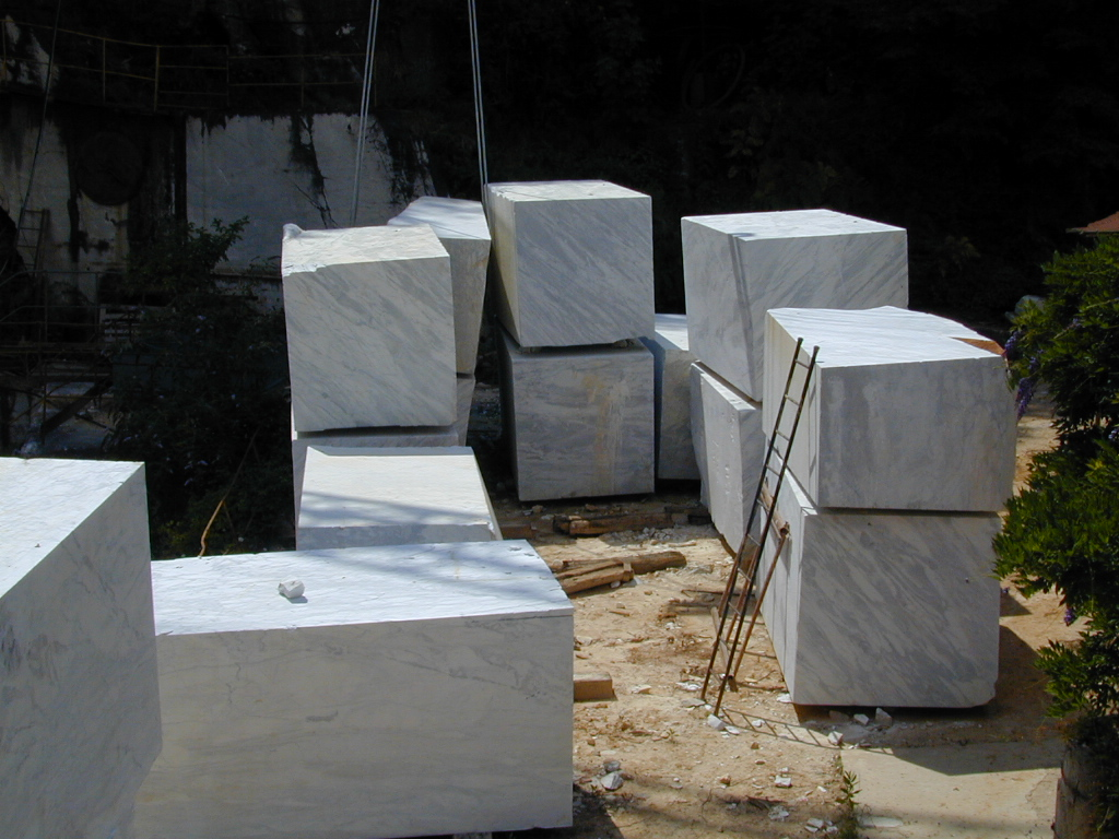 cutting of Carrara marble in Carrara, Italy